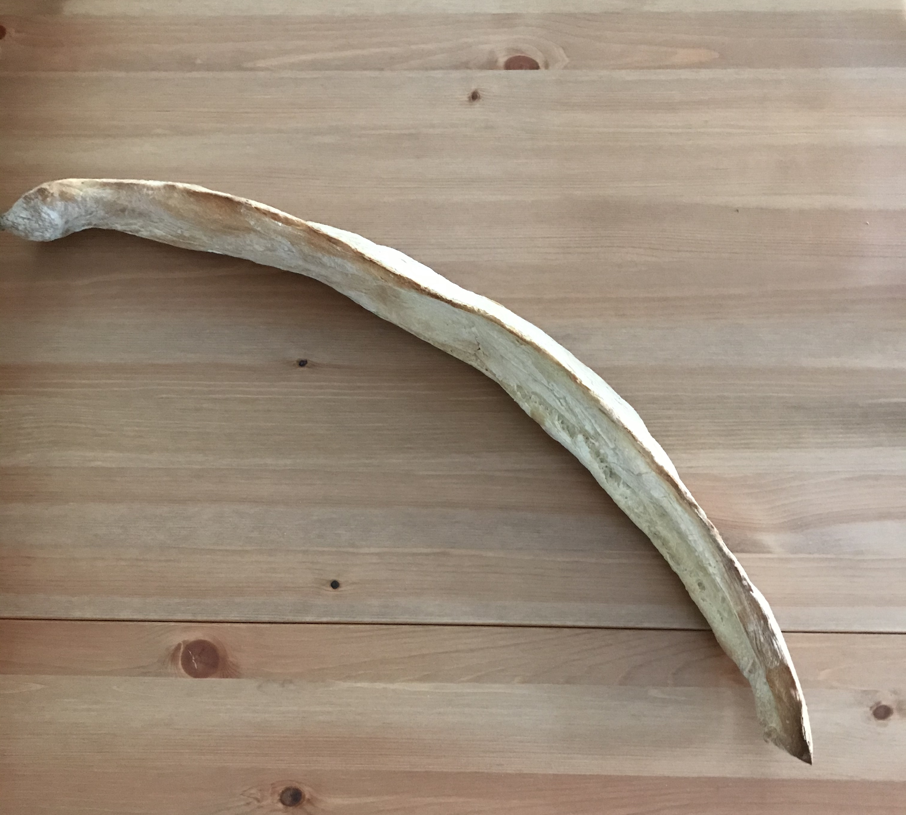 Kakhuri shoti